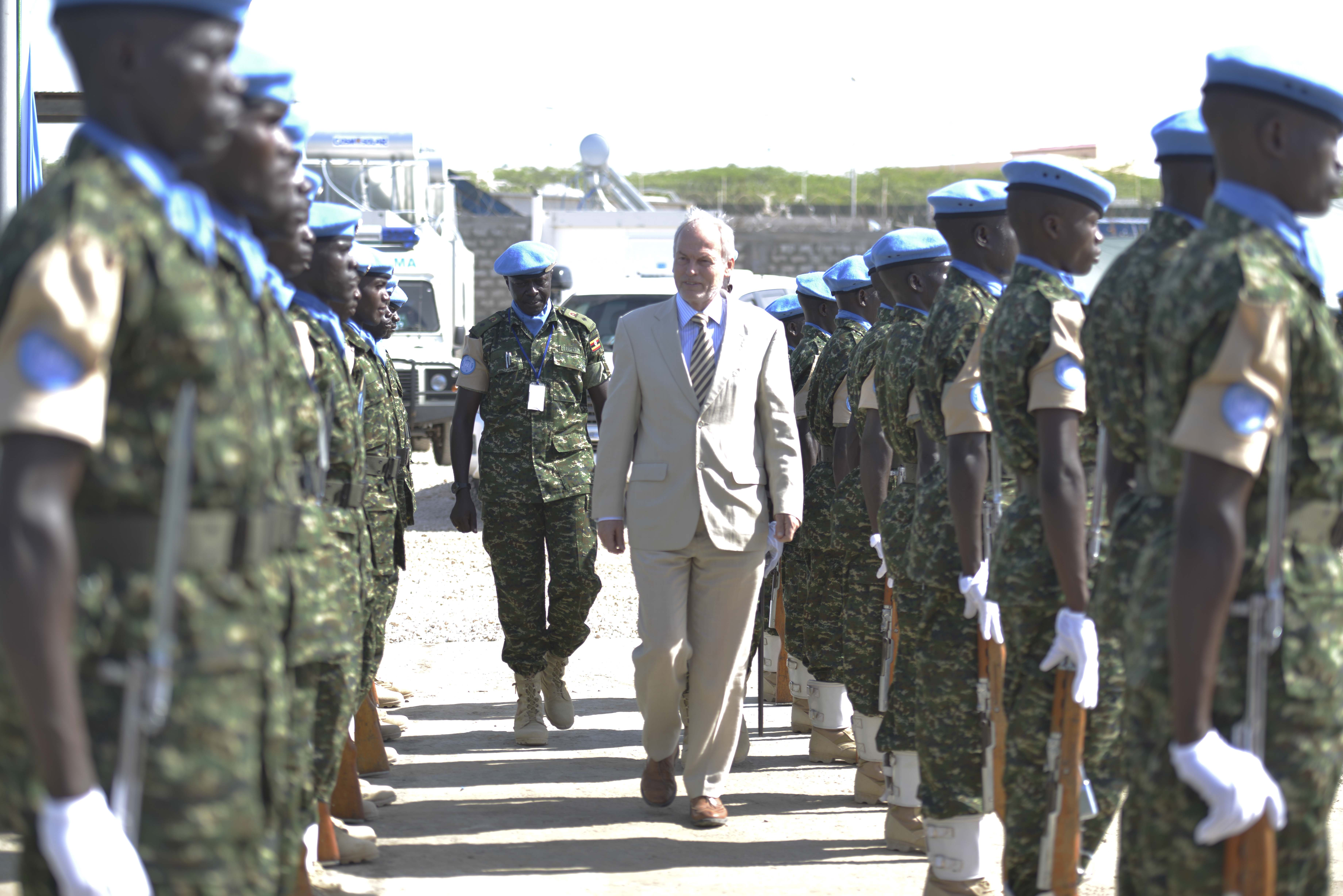 Special Representative of the Secretary General, Nicholas Kay, inspects the guard of honor during the Inauguration of the United Nations Guard Unit in Somalia on 18th May 2014. AU UN IST PHOTO/David Mutua